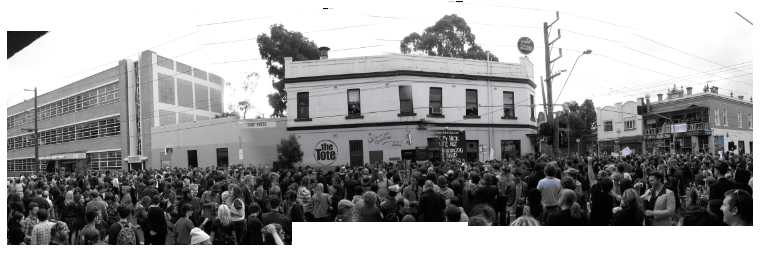 Panorama of the rally at the Tote Hotel on January 17, 2010. Image comprised of 4 photographs taken by Nick carson on January 17, 2010.